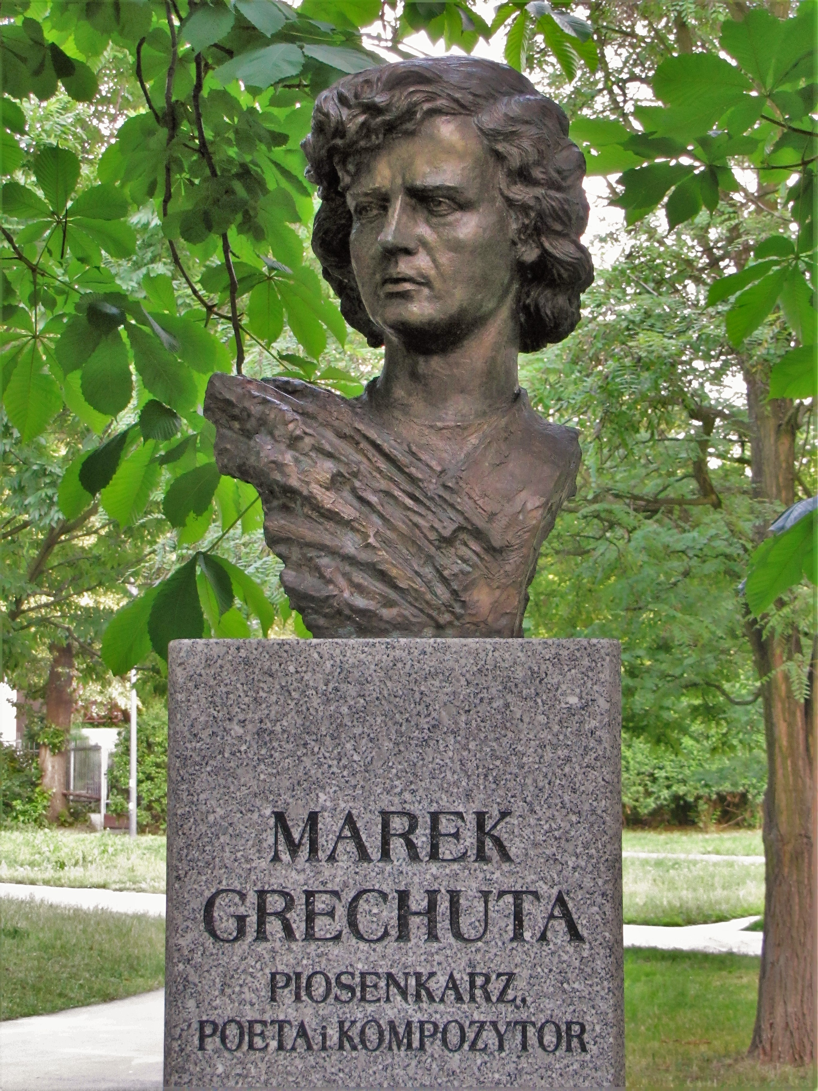 Bust of Marek Grechuta in Celebrity Alley in Kielce (Poland)